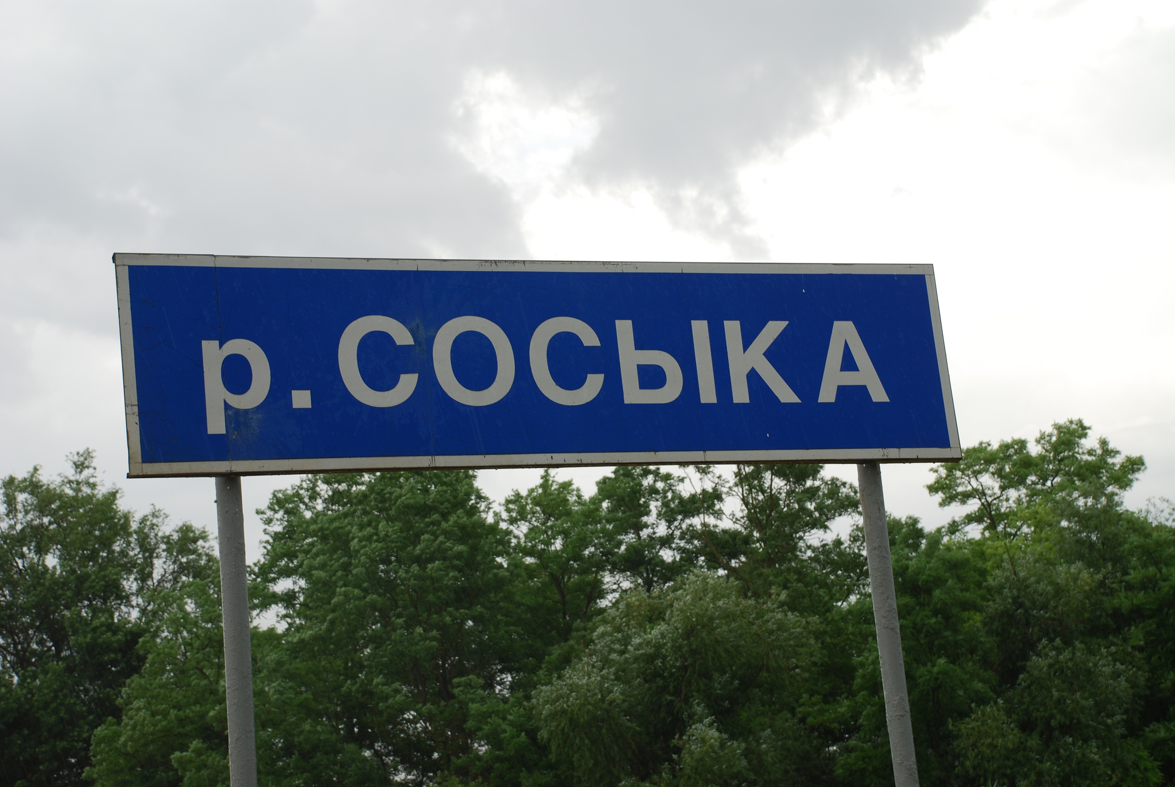 Sosyka River guide sign.